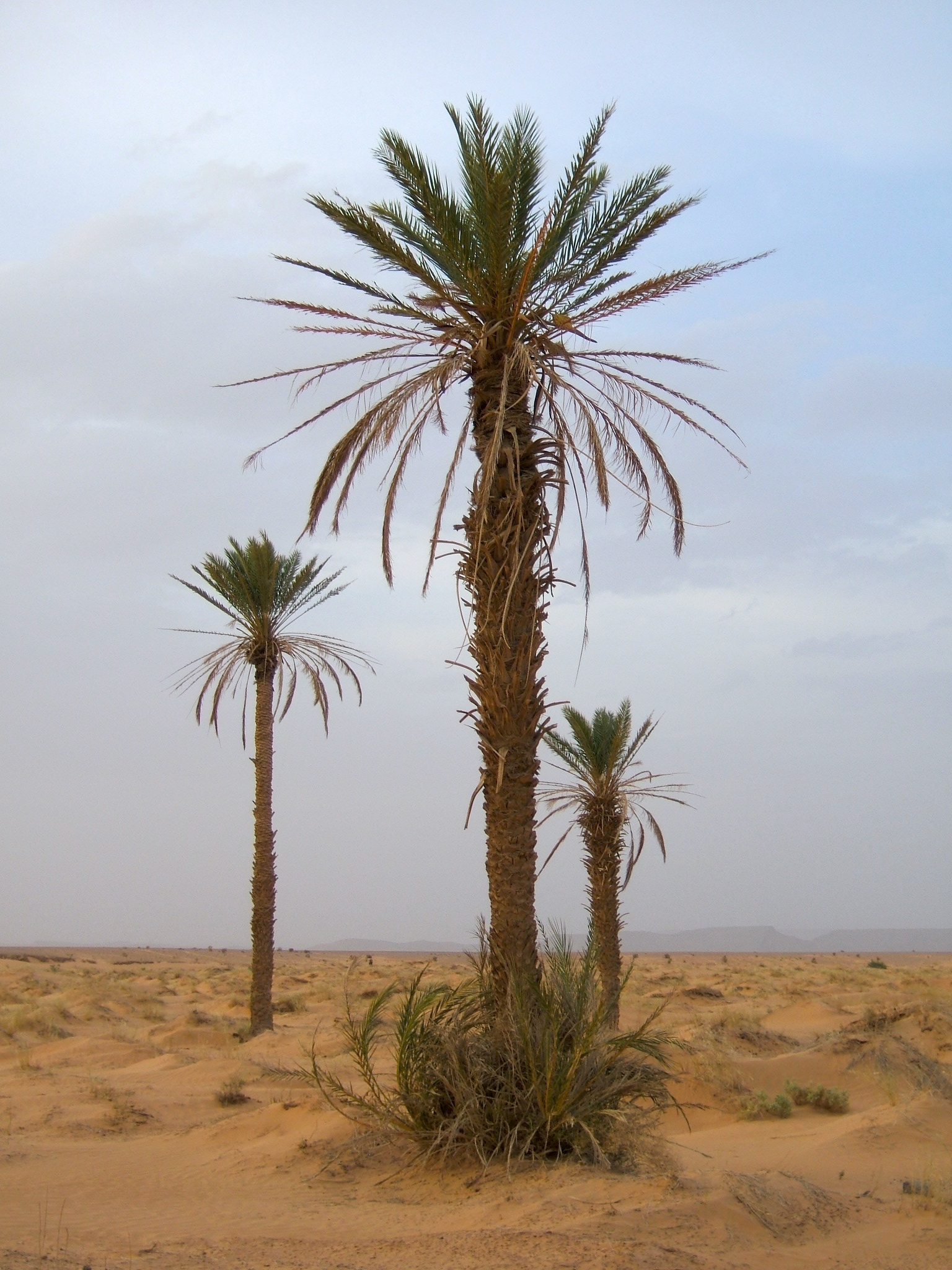 Phoenix dactylifera, Erg Chebbi, Merzouga, Morocco; April 2006